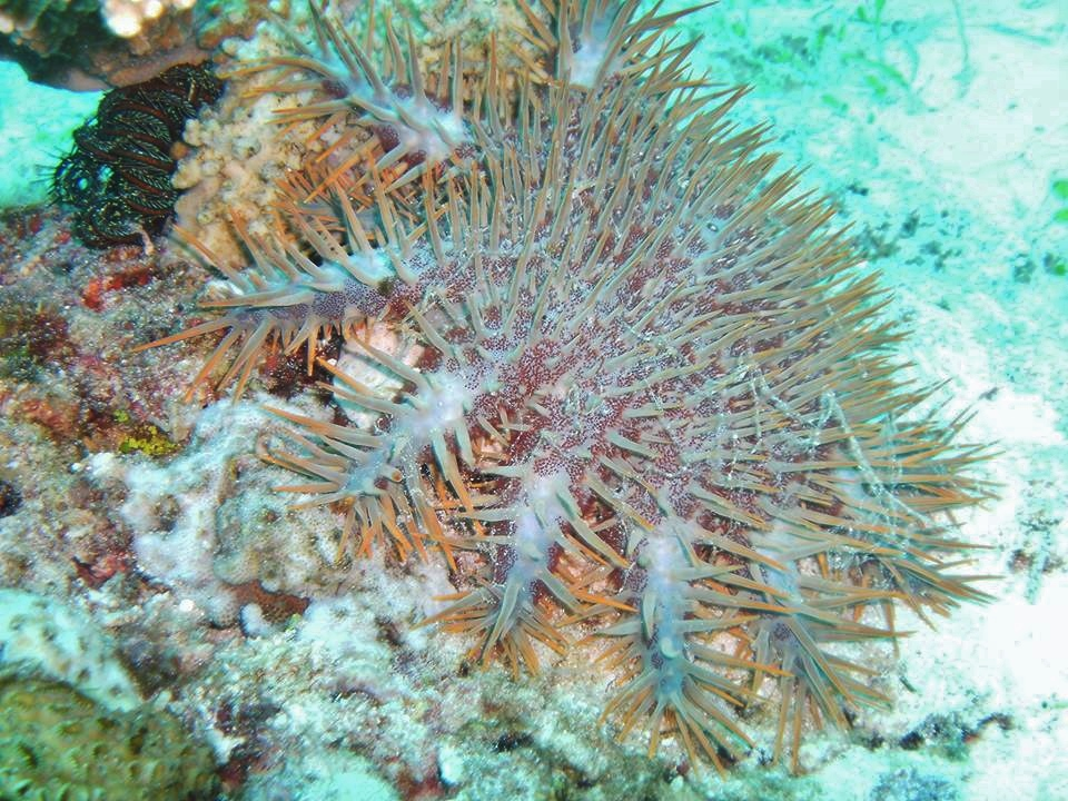 Crown-of-Thorns starfish (Acanthaster planci) seen in Balicasag Island, Bohol, Philippines.